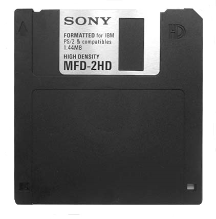 Picture of Floppy disk 90mm (3.5inch)